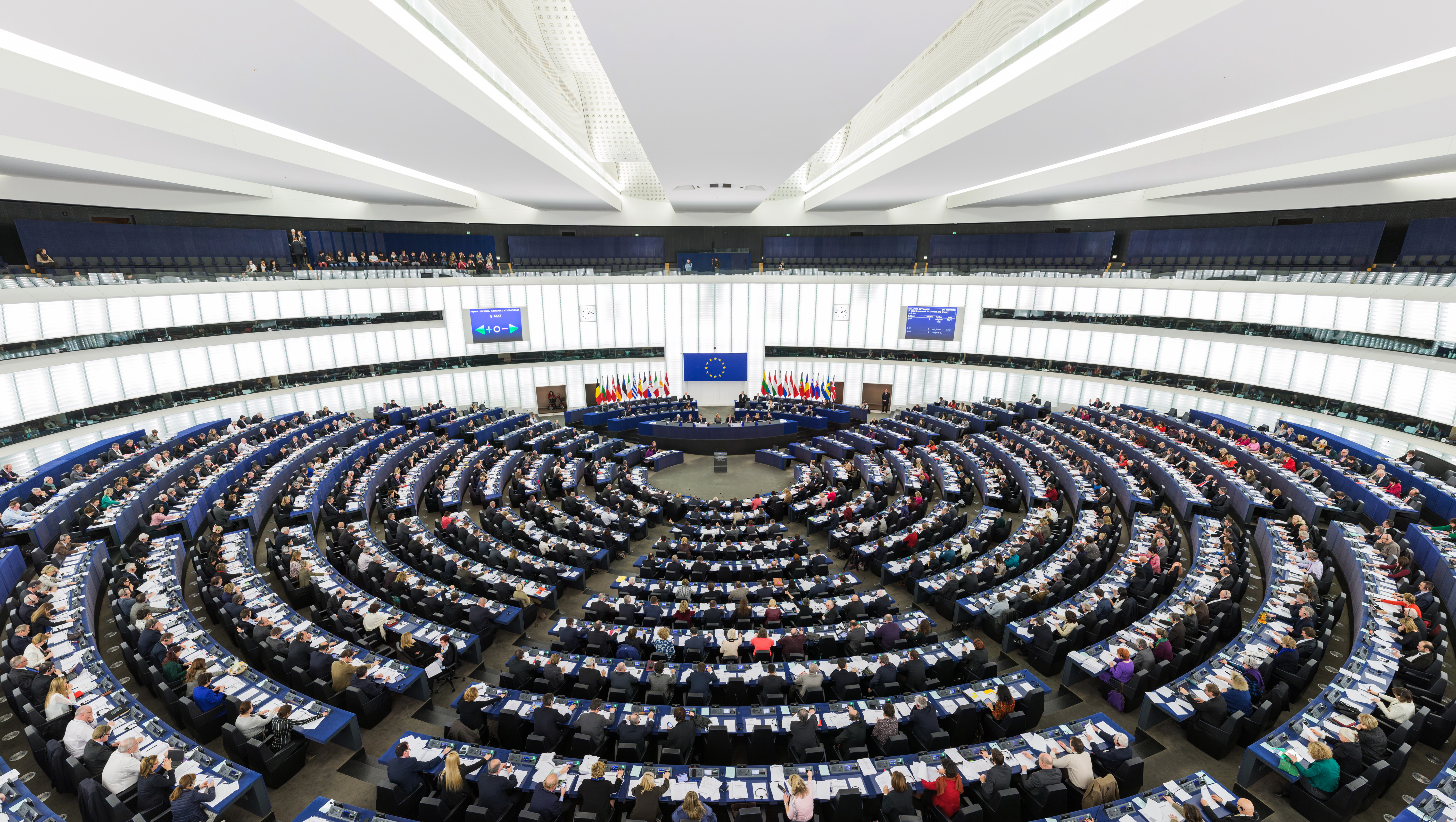 The Hemicycle of the European Parliament in Strasbourg during a plenary session in 2014.